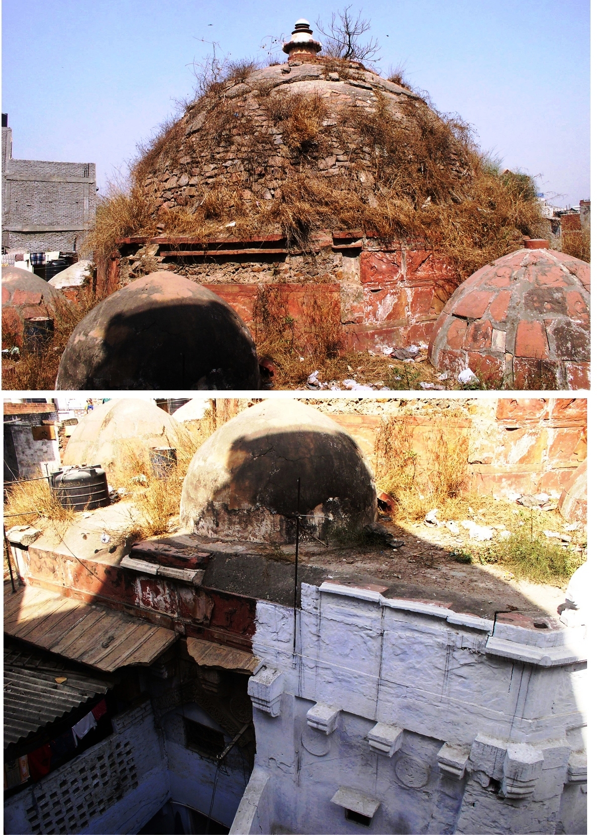 Tomb of Malik Maqbool - a.k.a. - Gannamaneedu - who hailed from Warangal, but settled in Delhi Durbar - A valiant fighter and Administrator His tomb is of Octogonal shape - Now nearly ruined, encroached and neglected. This photograph taken by Mr. Kumar Rao, User:Kumarrao who described his efforts as below: "Gannamaneedu's tomb which is totally encroached upon. People made homes inside and outside. It was impossible for me to enter inside. After going around the narrow lane for 2 hours persistently one understanding guy allowed me climb to the roof of his house and take photographs. The tomb is located almost next to Nizamuddin Dargah. You can well imagine the importance of this great man in 14th century when Delhi was in constant turmoil with full of court intrigues of Afghans, Turks and Persians. A proud Telugu warrior and commander who patronized Telugu poets in Warangal transformed himself into a powerful Wazir in Delhi durbar overcoming linguistic, religious and geographical barriers."